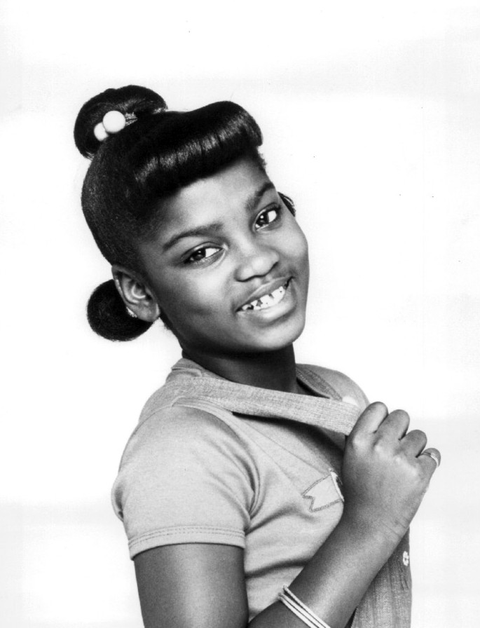 Photo of Danielle Spencer as Dee Thomas from the television program What's Happening!!.